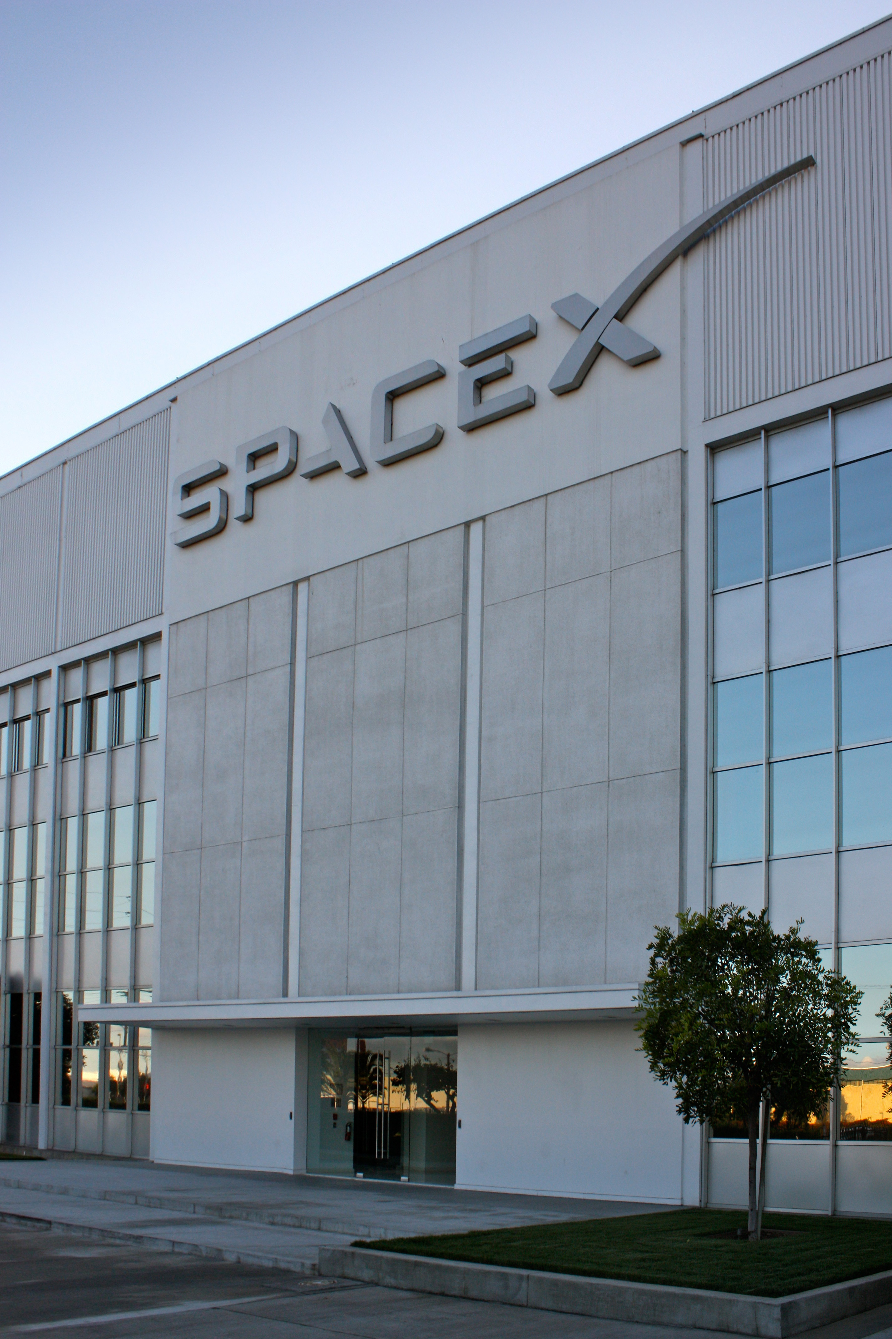 Entrance